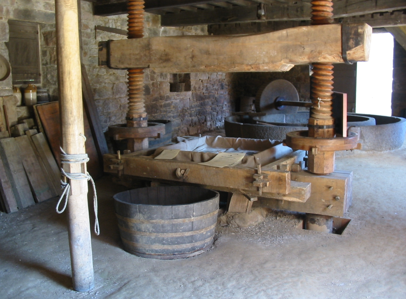 Cider press at Hamptonne in Jersey Photo taken by Man vyi with Canon PowerShot A40 on 11/6/2005